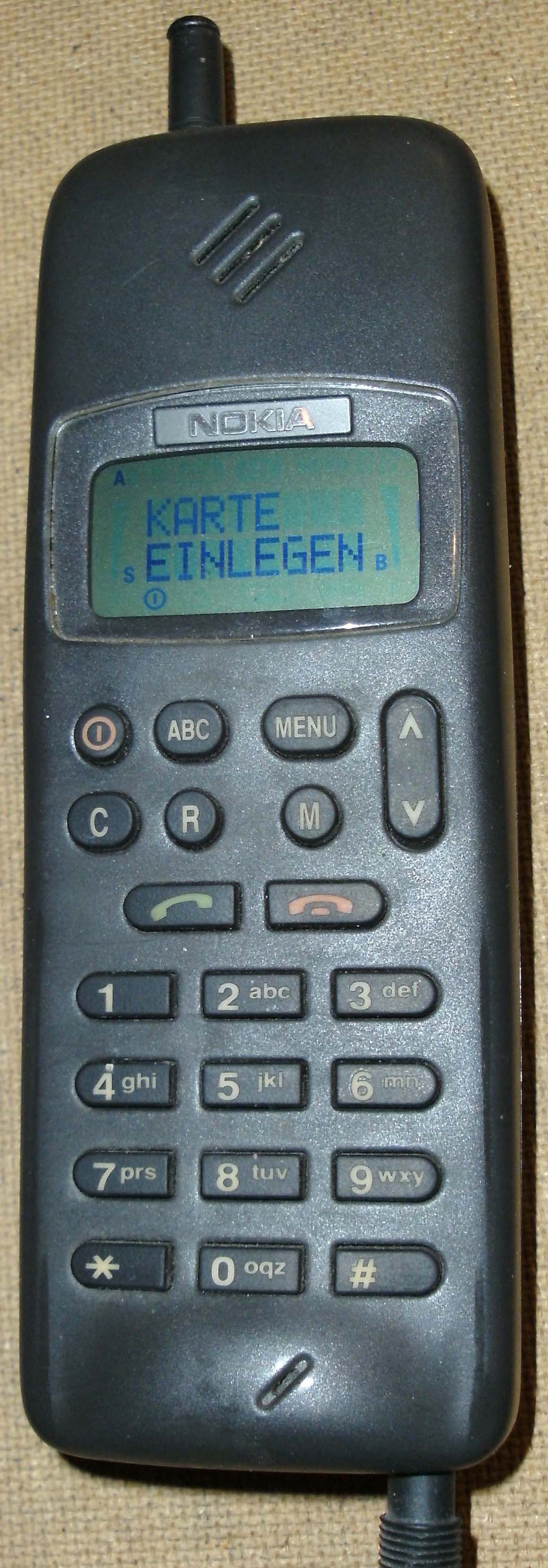 Mobile Nokia 1011 (1993)